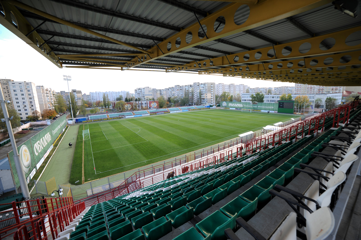 Obolon Arena in Kyiv, Ukraine